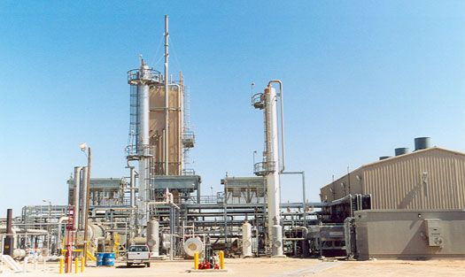 The Crude Helium Enrichment Unit in the Cliffside Gas Field, Federal Helium Program, outside Amarillo, Texas.